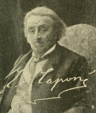 Portrait of the Italian journalist Jacopo Caponi. In "Infanzia e giovinezza di illustri italiani contemporanei" by Onorato Roux (Firenze, 1908)